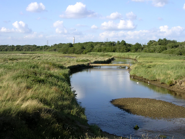 Dark Water river and marsh, Lepe Country Park. The river Dark Water drains Beaulieu Heath and reaches the sea via a tunnel and sluice gate. In former times it turned east and entered the sea at Stansore Point. The river is flanked on either side by fine reed beds and marsh vegetation. [Words from Lepe Country Park visitors' leaflet, published by Hampshire County Council]